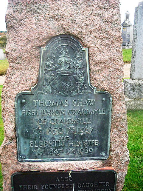 Headstone on the grave of Thomas Shaw, Baron Craigmyle (1850-1939) and family, near to Torphins, Aberdeenshire, Great Britain.